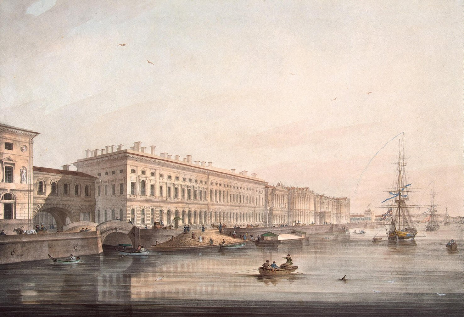 Hermitage Museum Native nameГосударственный ЭрмитажLocationSaint PetersburgCoordinates59° 56′ 26″ N, 30° 18′ 49″ E Established1764Web pagehermitagemuseum.orgAuthority control : Q132783 VIAF: 128956287 ISNI: 0000 0001 2285 6617 LCCN: n79100241 NLA: 35139924 GND: 2124053-X WorldCat institution QS:P195,Q132783 View of the Palace Embankmentlabel QS:Len,"View of the Palace Embankment"label QS:Lru,"Вид Дворцовой набережной"